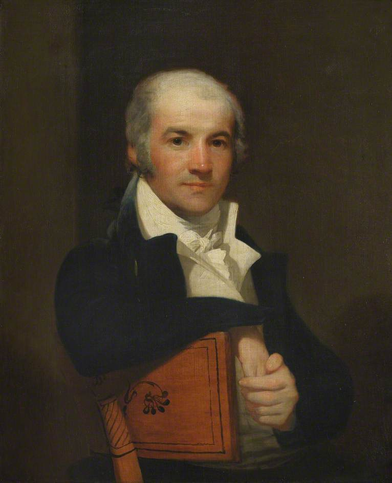 Portrait of Sir Edward Thornton (1766-1852)